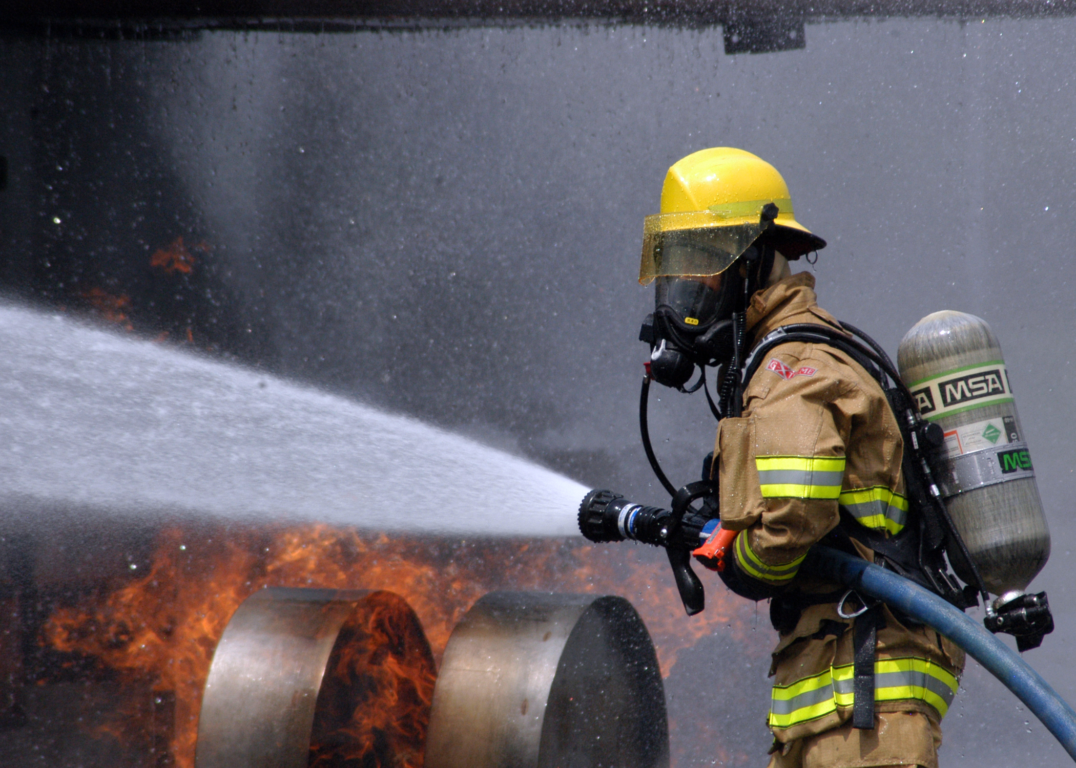 ATSUGI, Japan (July 30, 2008) A Commander, Naval Forces Japan firefighter douses a fire on a dummy aircraft during the annual off-station mishap drill at Naval Support Facility Kamiseya. Emergency response and rescue teams were tasked with putting out a simulated fire, and rescuing two personnel from a plane crash scene. U.S. Navy photo by Mass Communication Seaman Barry Riley (Released)